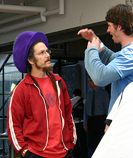 Nandor Tanczos talking with a student at the University of Auckland, 5th March 2004.